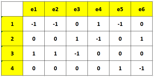 Ma tra G7